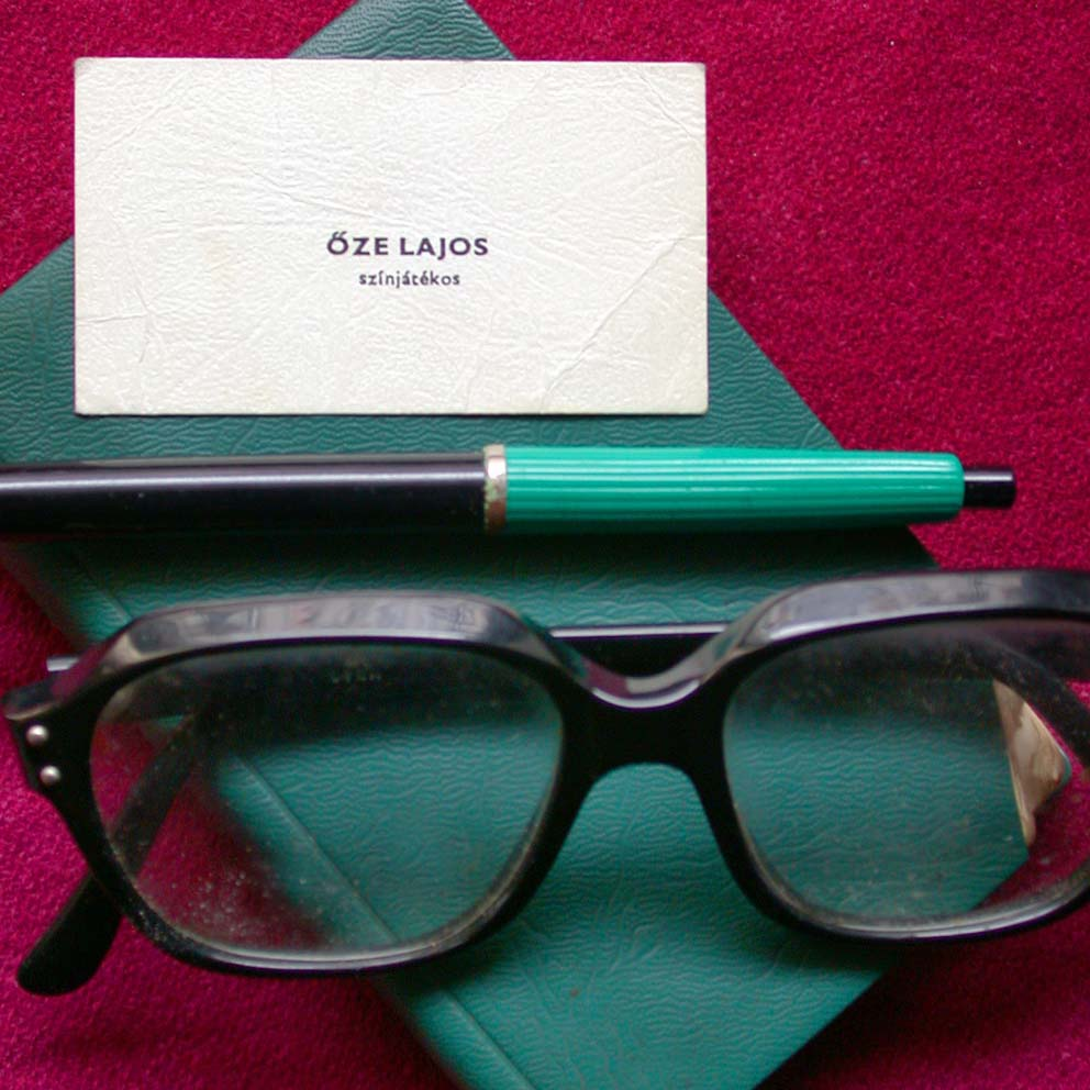 Őze Lajos Hungarian actor - last day of personal belongings